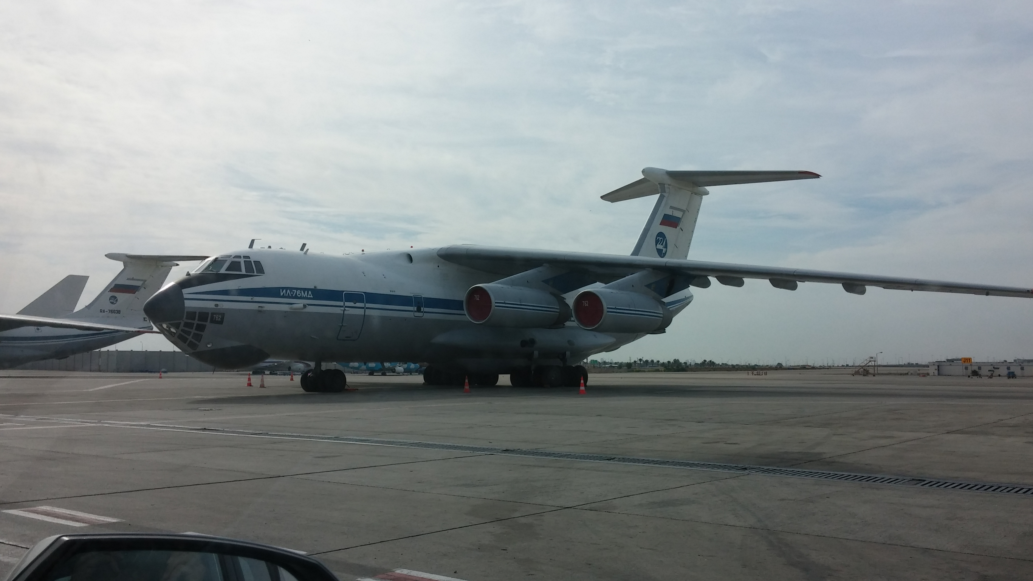 Il 76-MD Cargo airplane.